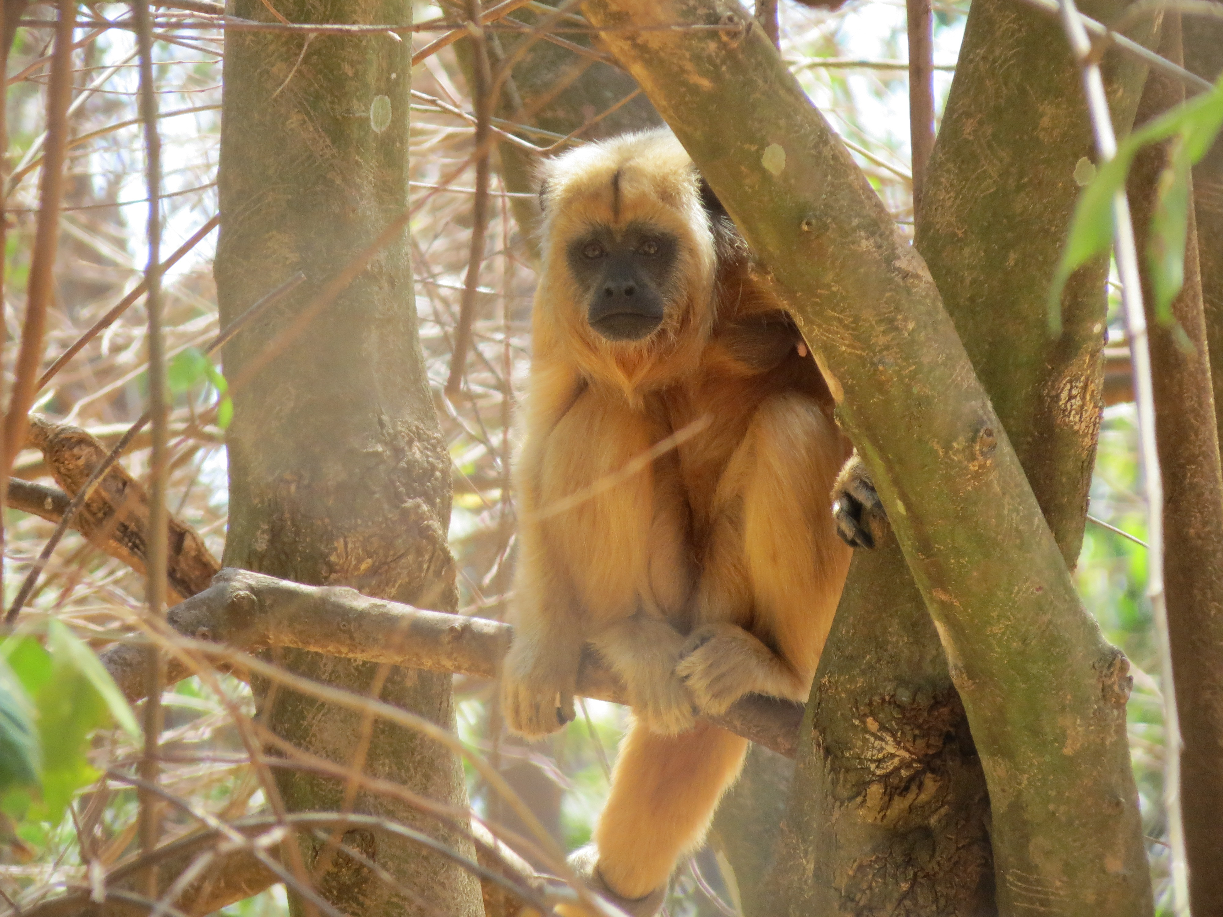 Female black howler monkey in a semidecidous forest in Ilha Solteira, Brazil.